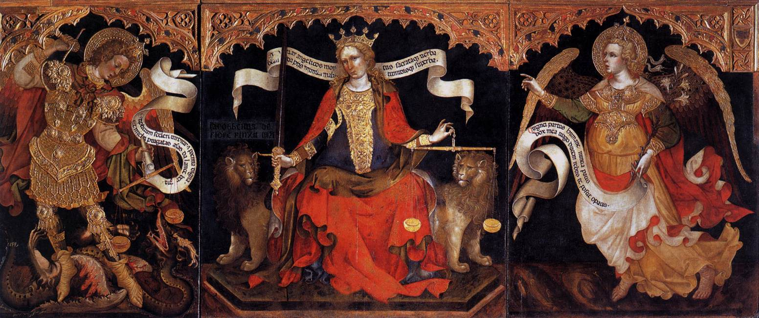 Justice seated between two lions and the archangels Michael and Gabriel. She holds her attributes sword and scales.